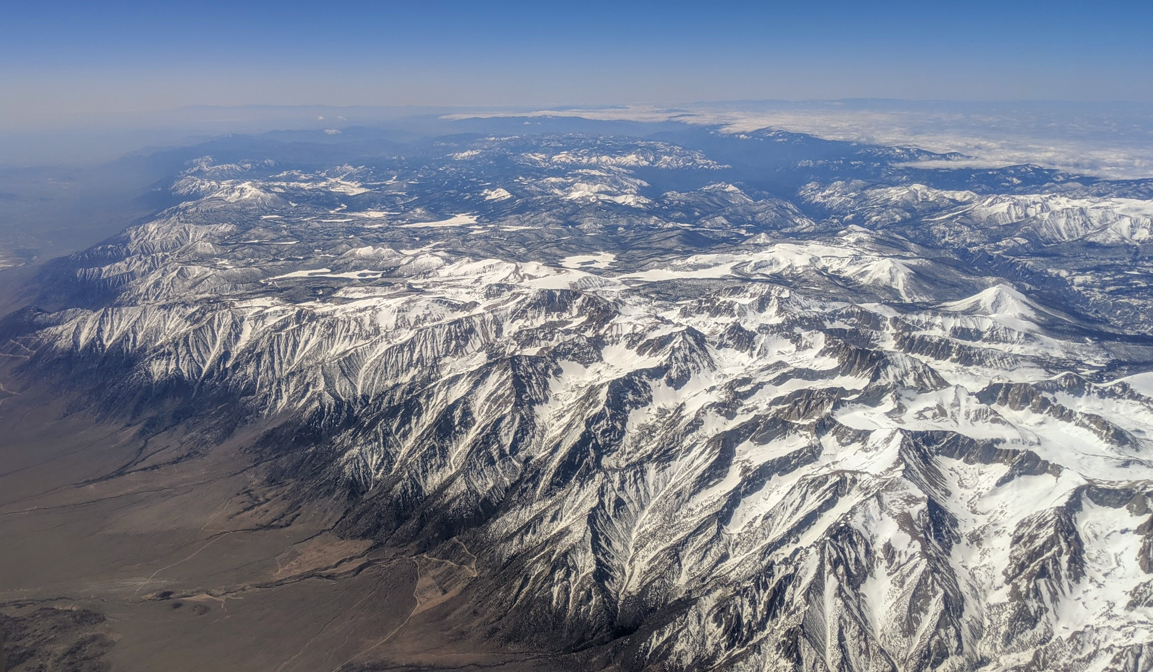 Aerial view from the north of Mount Whitney and the step face of the south-eastern Sierra Nevadas in winter, 2019